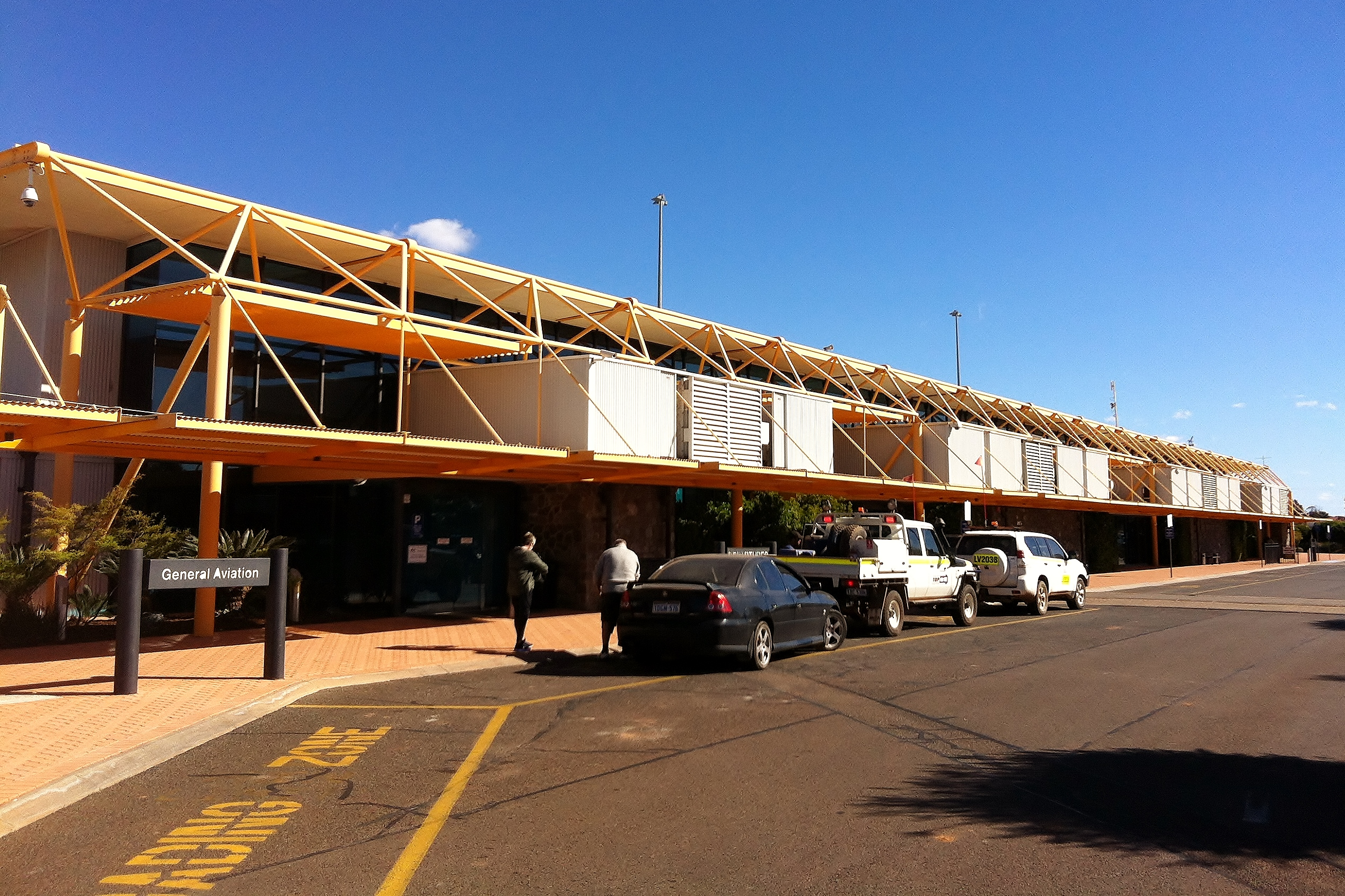 View of the terminal at Kalgoorlie-Boulder Airport, Western Australia